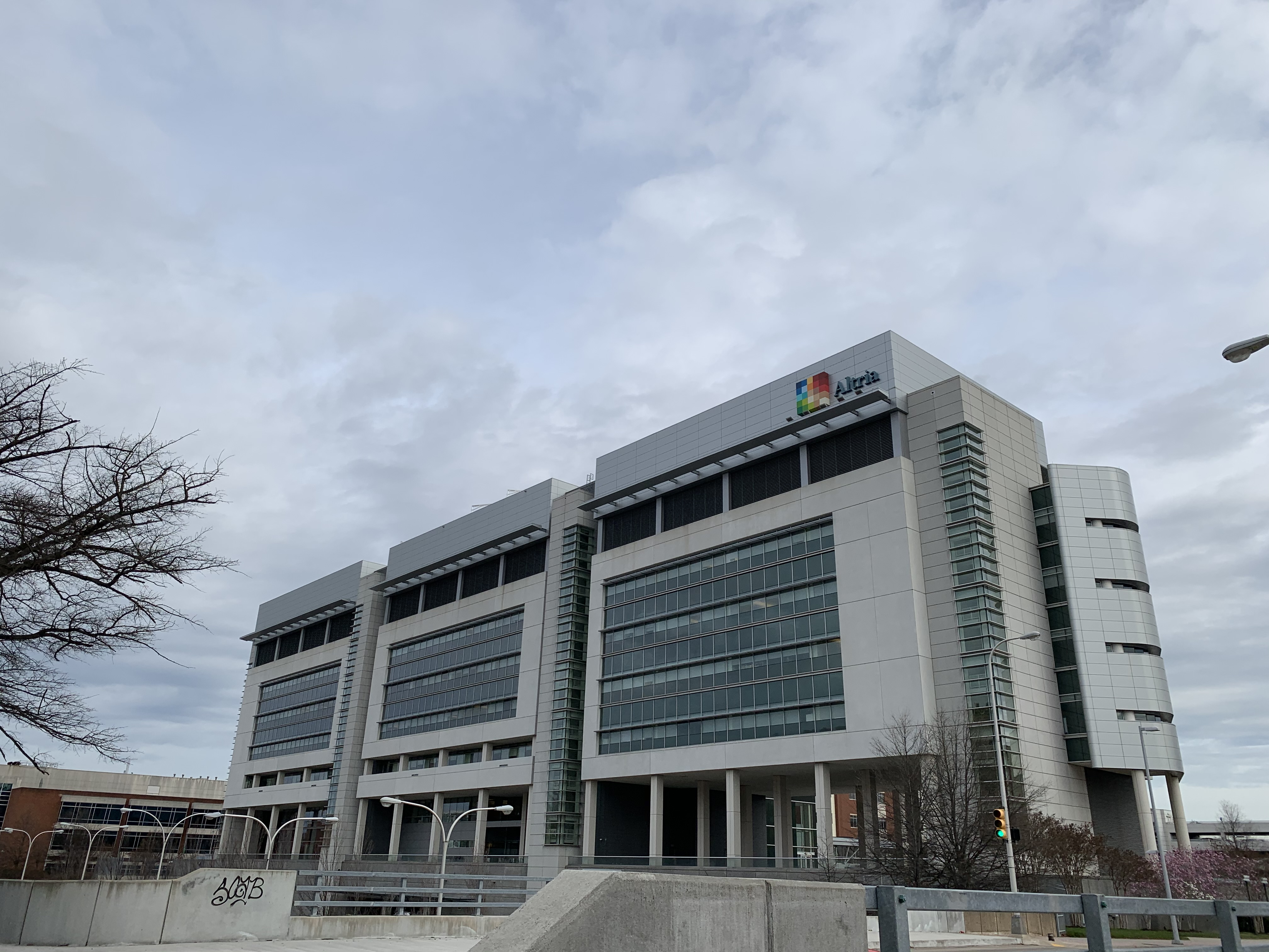 This is an image of the Altria Center For Research and Technology as seen in March 2020.